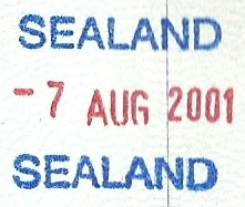 Passport stamp from the Principality of Sealand